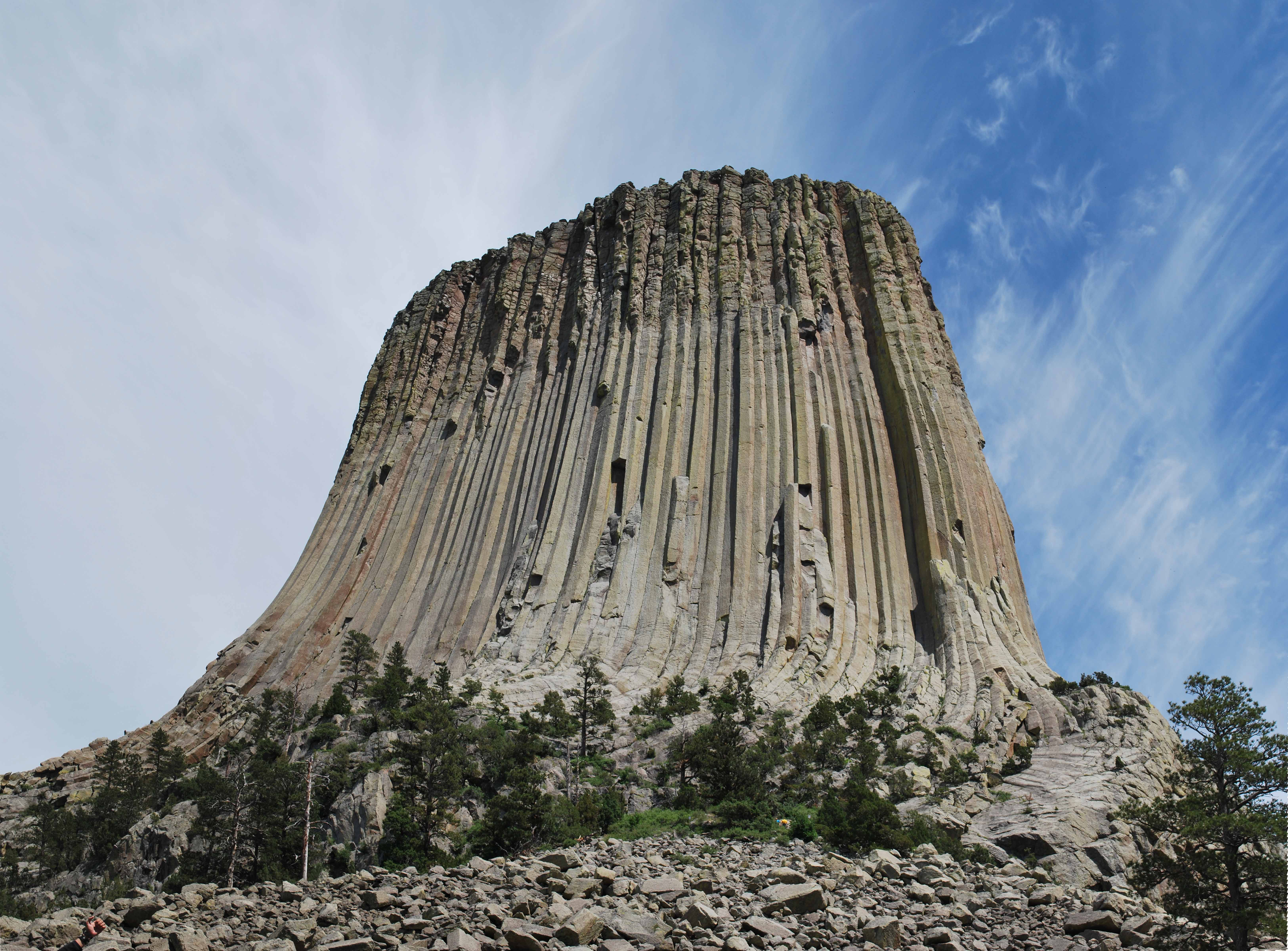 Crook County, WY, USA